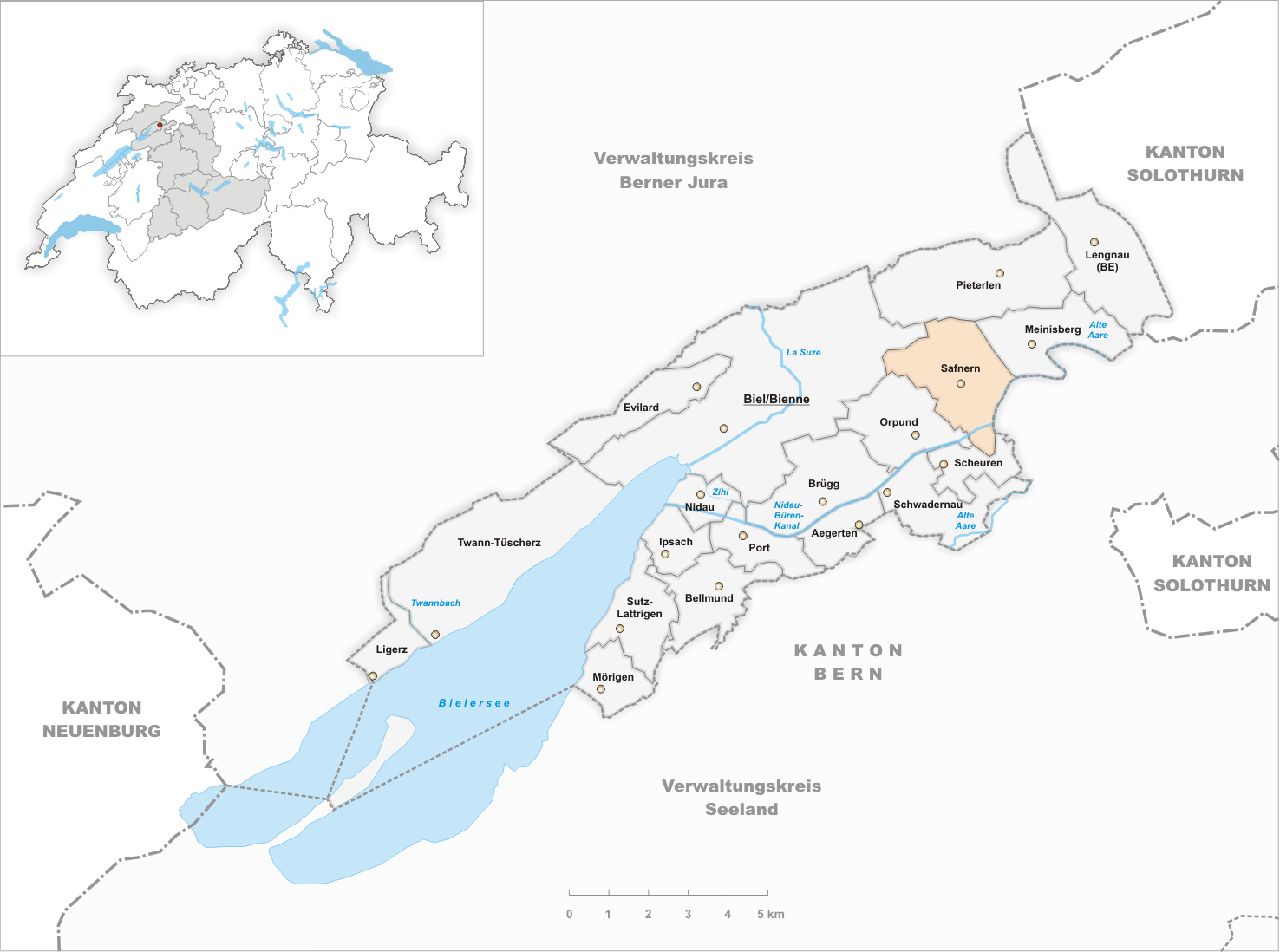 Municipality Safnern